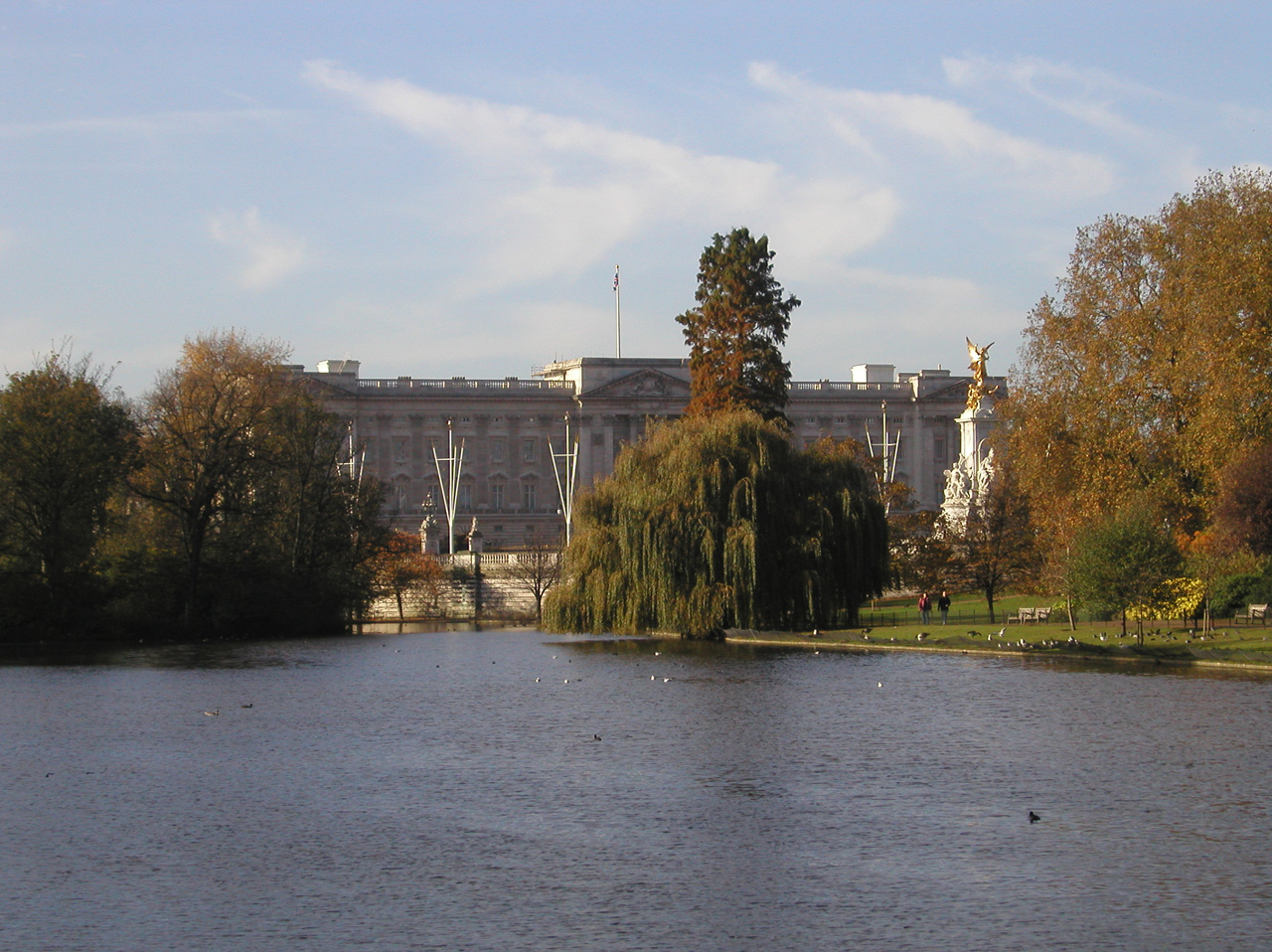 View of Buckingham Palace from St. James's Park.